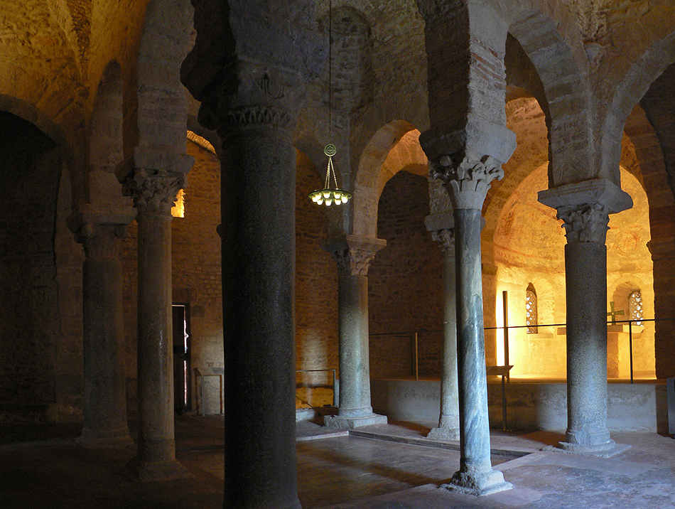 Ancient Visigothic-Romanesque church of St. Michael of Egara, in Terrassa (Principality of Catalonia, Kingdom of Spain).